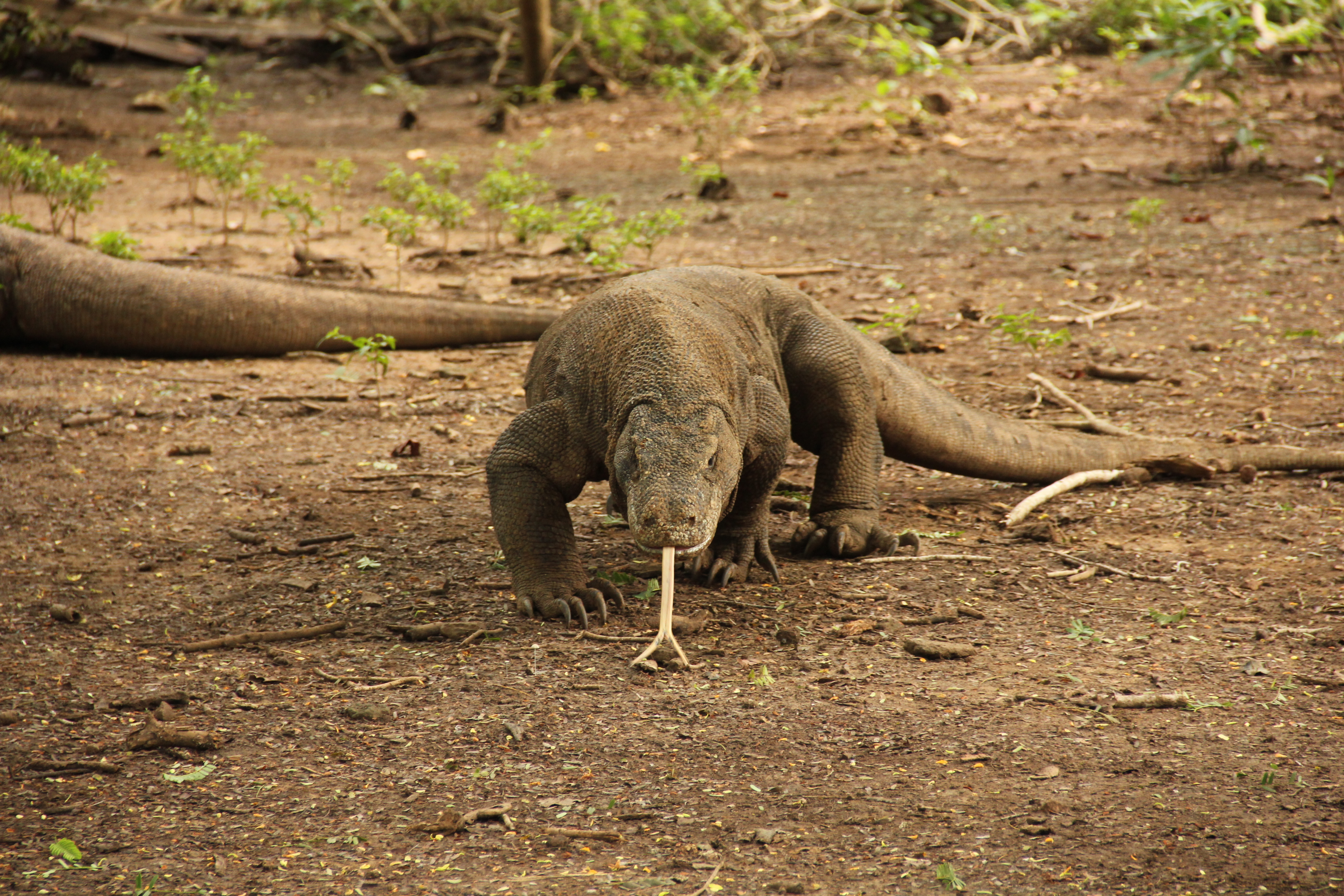 Komodo dragon walking and sampling air with his tongue (Komodo National Park)